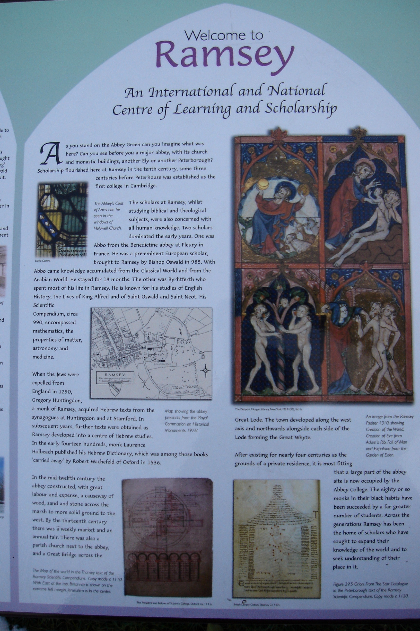 Ramsey Abbey — Information Board — Welcome to Ramsey: An International and National Centre of Learning and Scholarship